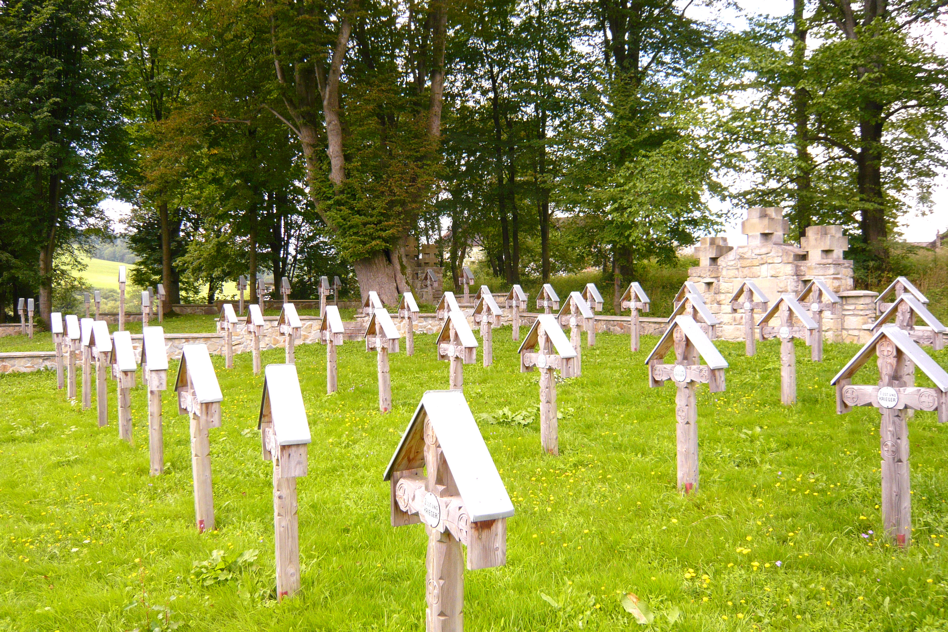 World War I Cemetery nr 3 in Ożenna